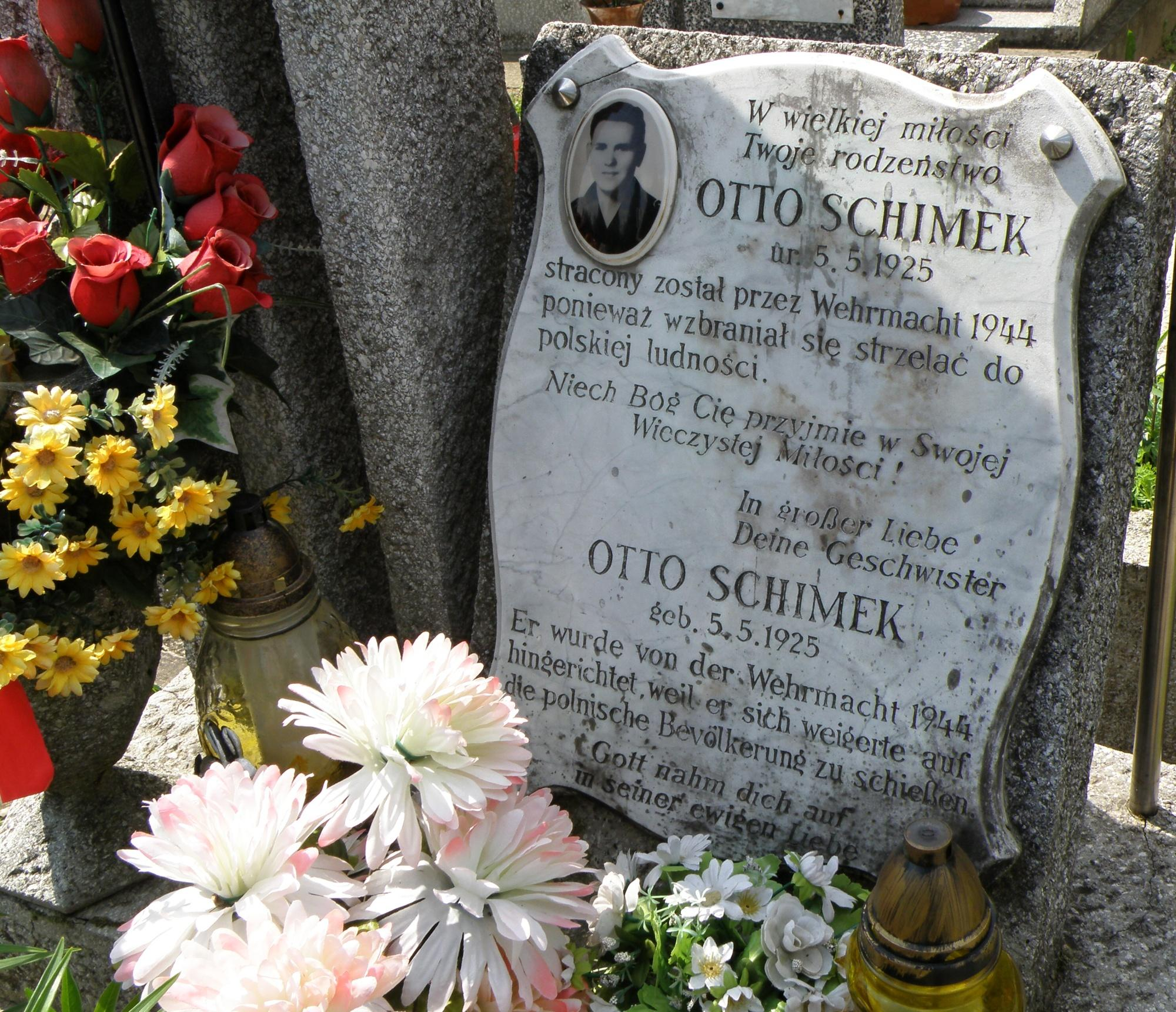 Otto Schimek, Machowa, Poland - tombstone.